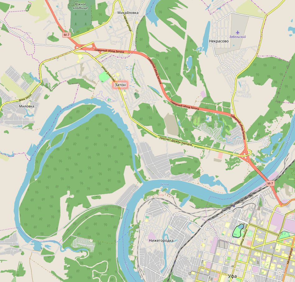 Map of Zaton, Ufa, Bashkortostan, Russia, showing proximity to Ufa and surrounding districts. Map of Zaton, Ufa, Bashkortostan, Russia This map of Zaton was created from OpenStreetMap project data, collected by the community. This map may be incomplete, and may contain errors. Don't rely solely on it for navigation.